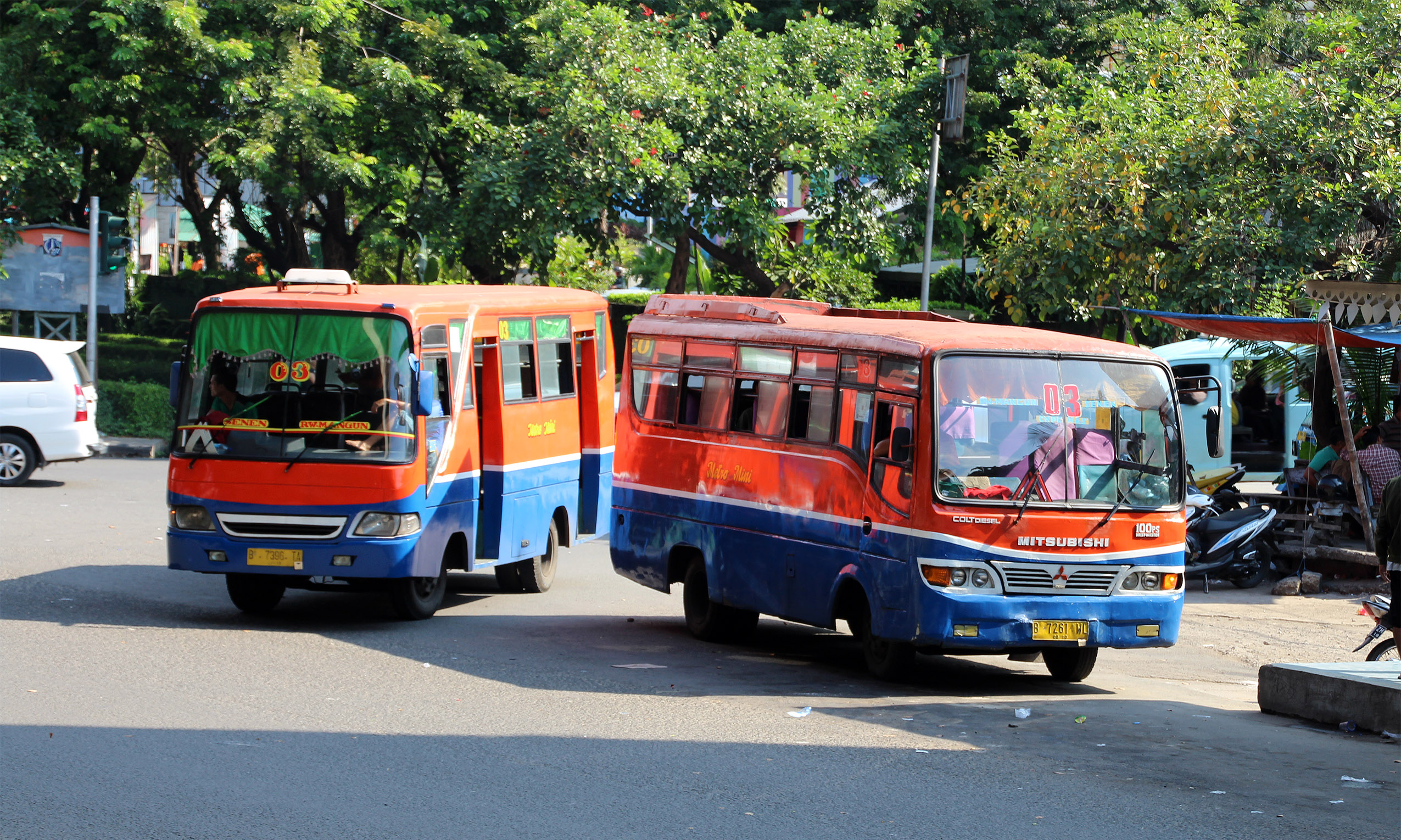 MetroMini 03 buses at Rawasari bus stop, Central Jakarta, Indonesia.